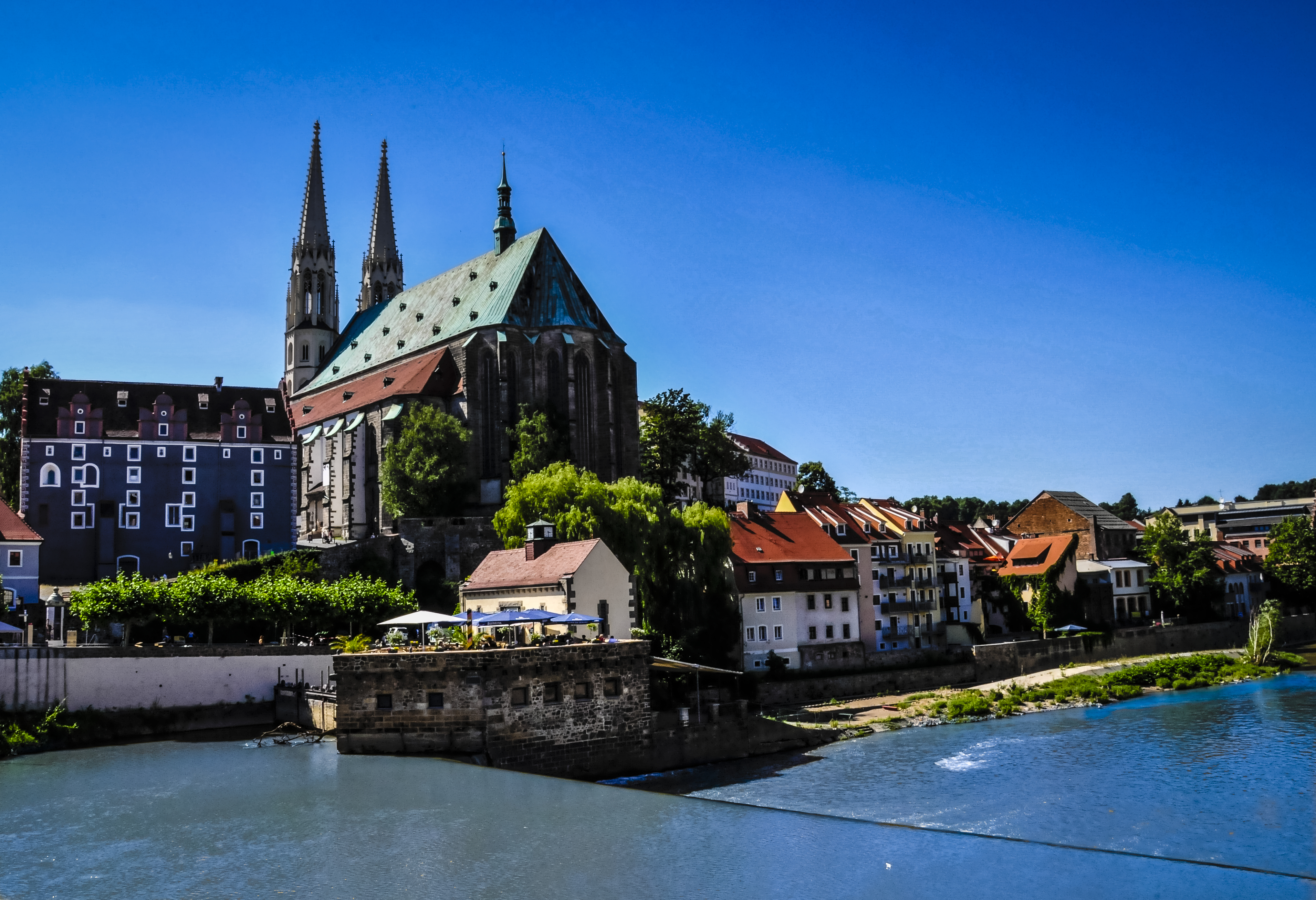 The Protestant parish church of St. Peter and Paul and the Waidhaus. In front in the River Neisse, the Vierradenmühle from 1325 (now a restaurant). View from the Polish part of town (Zgorzelec)